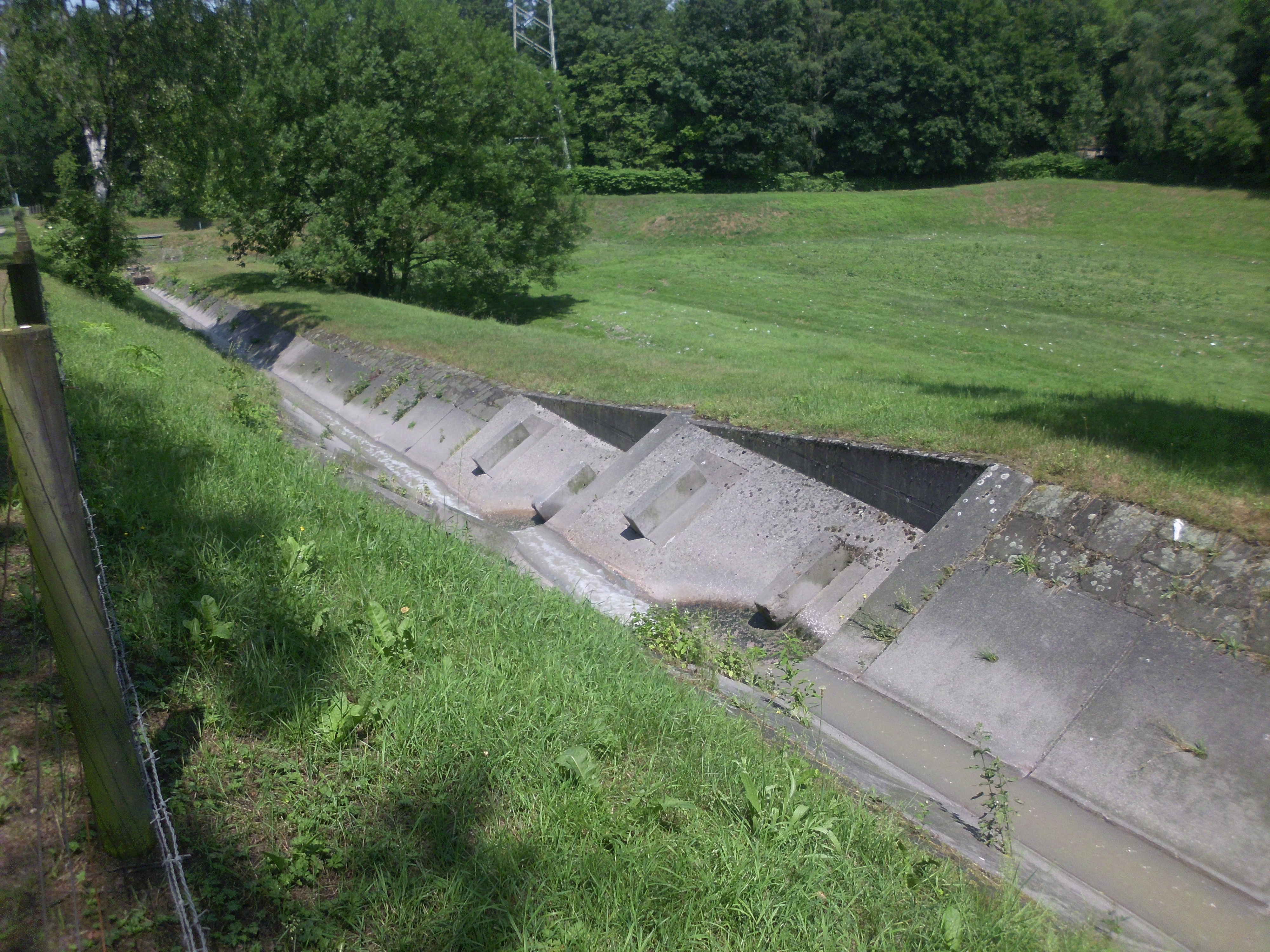 Rain retention basin Stoppenberger Bach